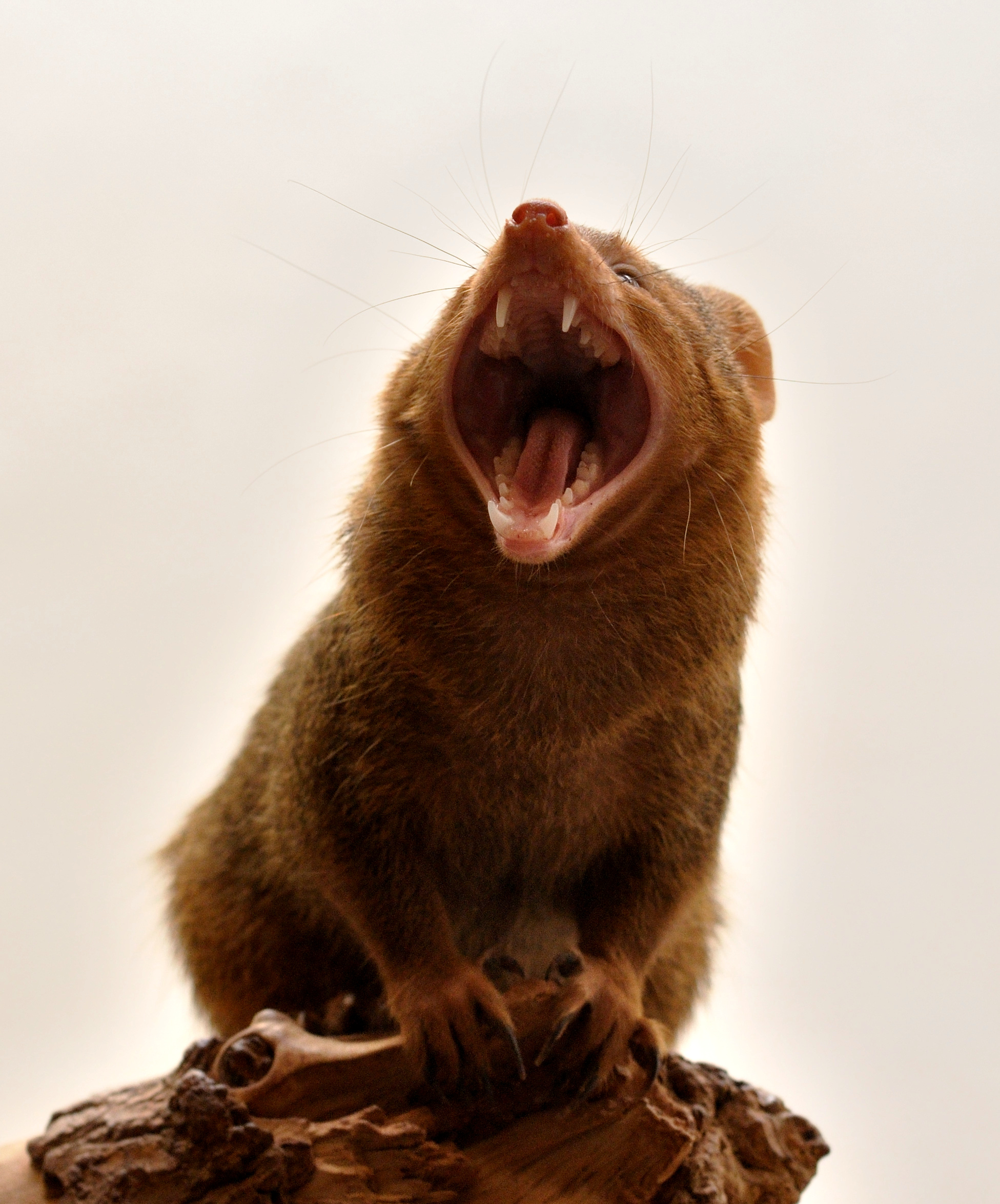 Dwarf Mongoose (Helogale parvula) in the Frankfurt Zoo.